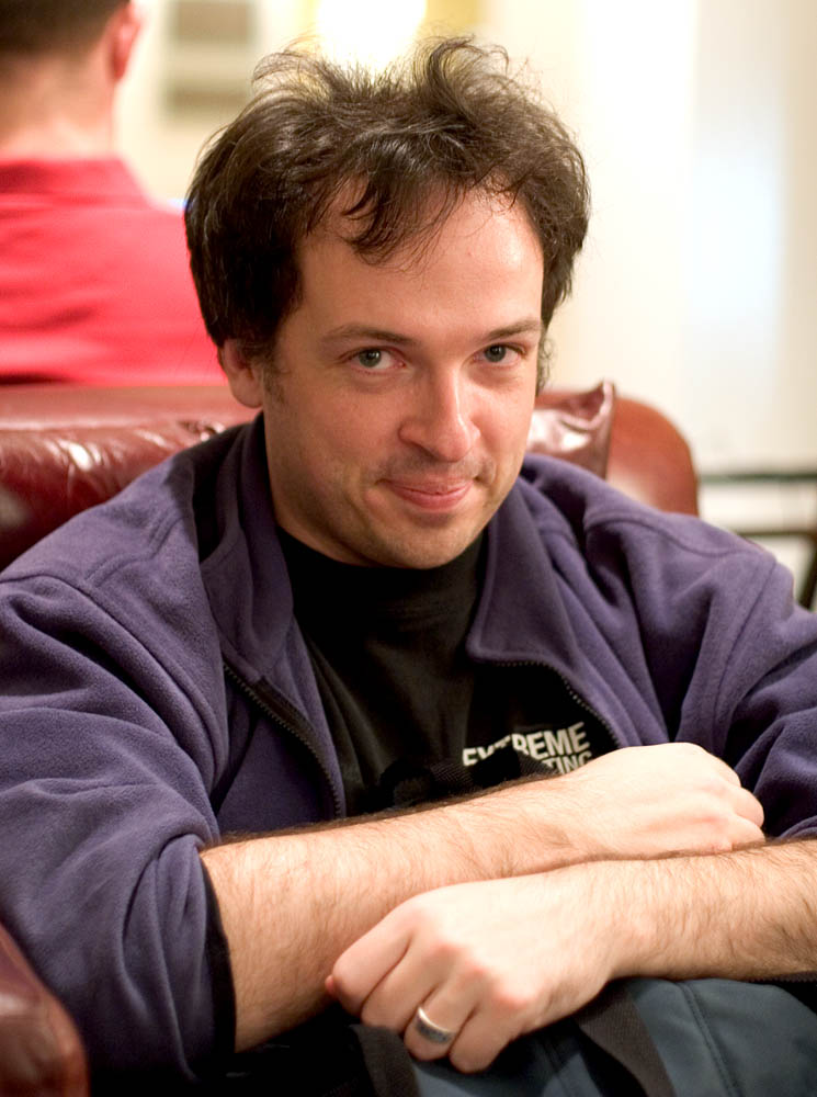 Danny O'Brien This photograph was taken during the 2005 O'Reilly Emerging Technology Conference in San Diego, California at the Westin Horton Plaza Hotel.